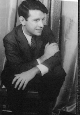 Beni MontresorPortrait of Beni Montresor